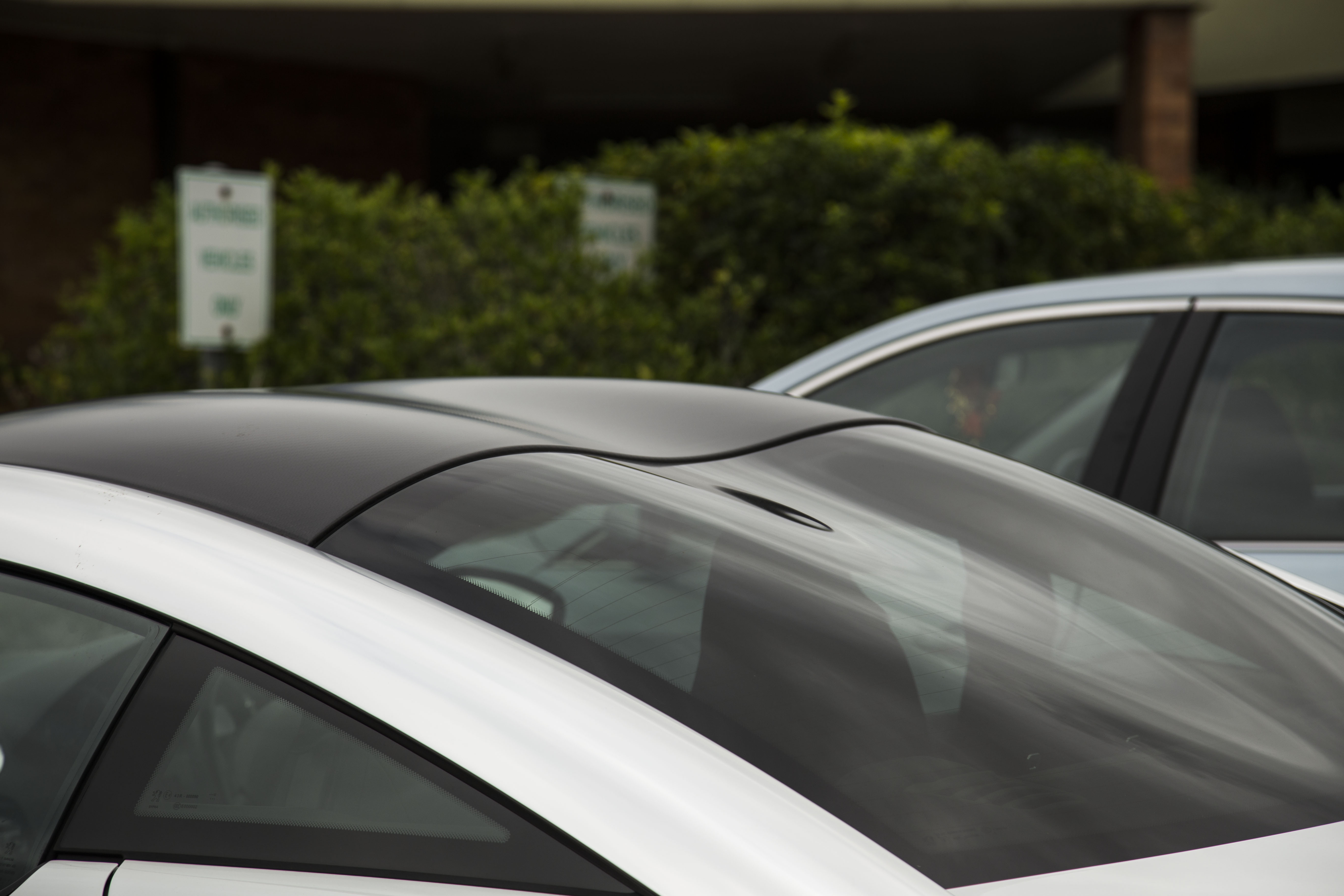 A close up of the unique rear windscreen employed by the Peugeot RCZ.